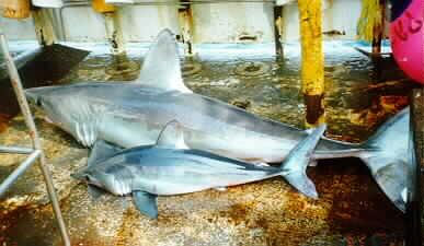 Porbeagle sharks (Lamna nasus)